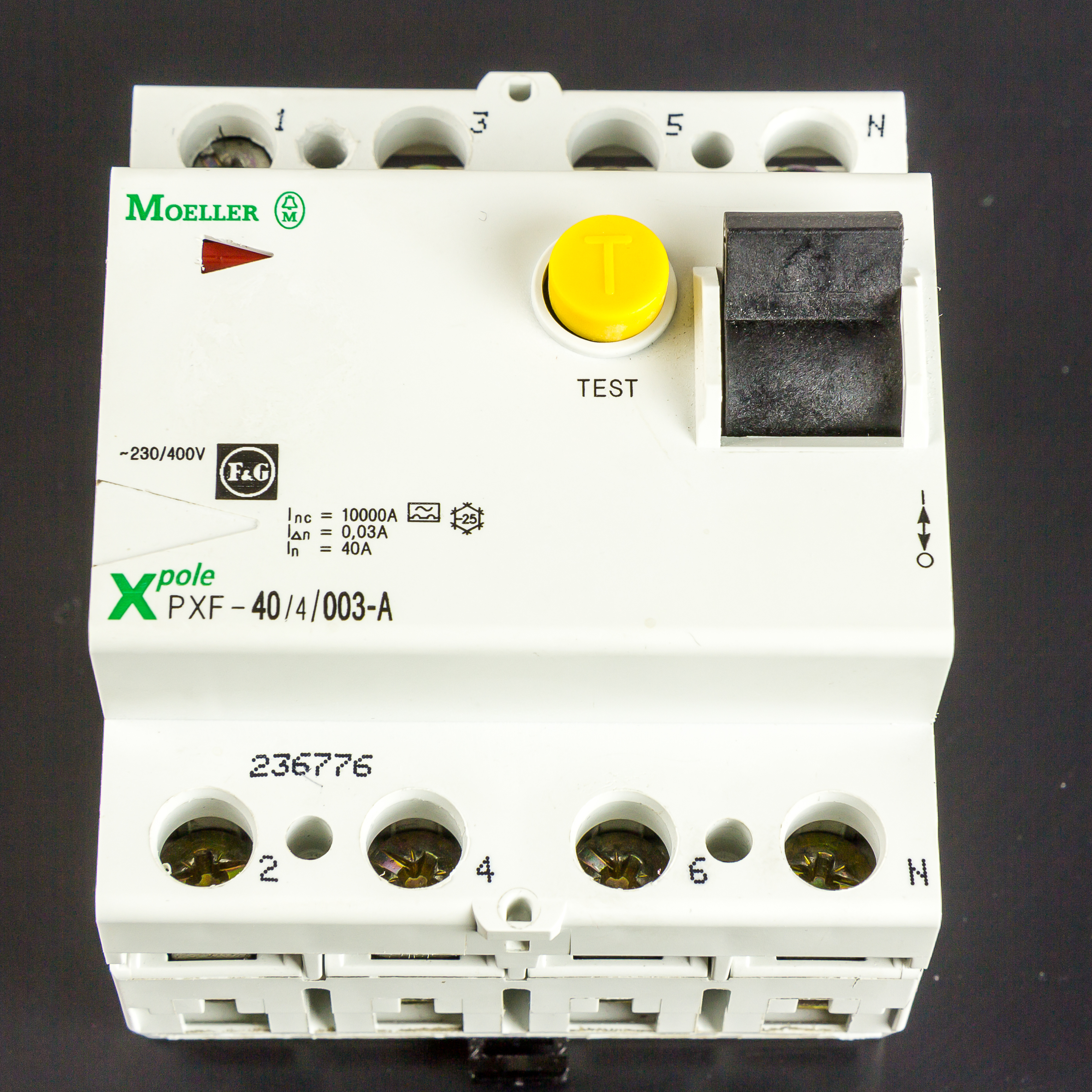 Moeller Xpole PXF-40/4/003-A - Residual current device